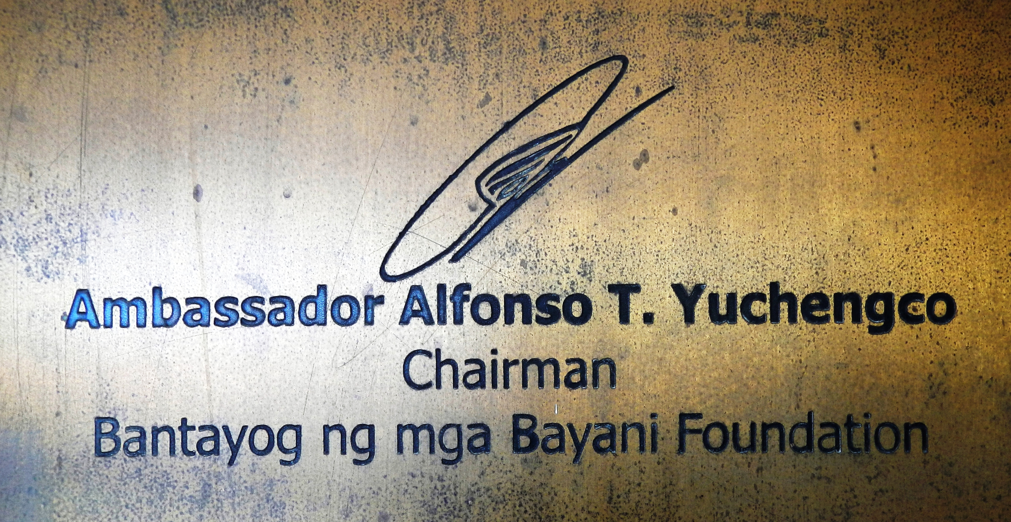 Bantayog ng mga Bayani Museum Bantayog ng mga Bayani Bantayog ng mga Bayani (Heroes Monument) Park (complex of a momument tribute to martial law heroes and martyrs (1972-1986), a wall of remembrance where their names are inscribed, a building complex housing its office, library, museum, audio-visual auditorium located at the corner of EDSA and Quezon Avenue Quezon City).Quezon Avenue near EDSA, Pinyahan, Quezon City Collection of items of the Martial Law period).